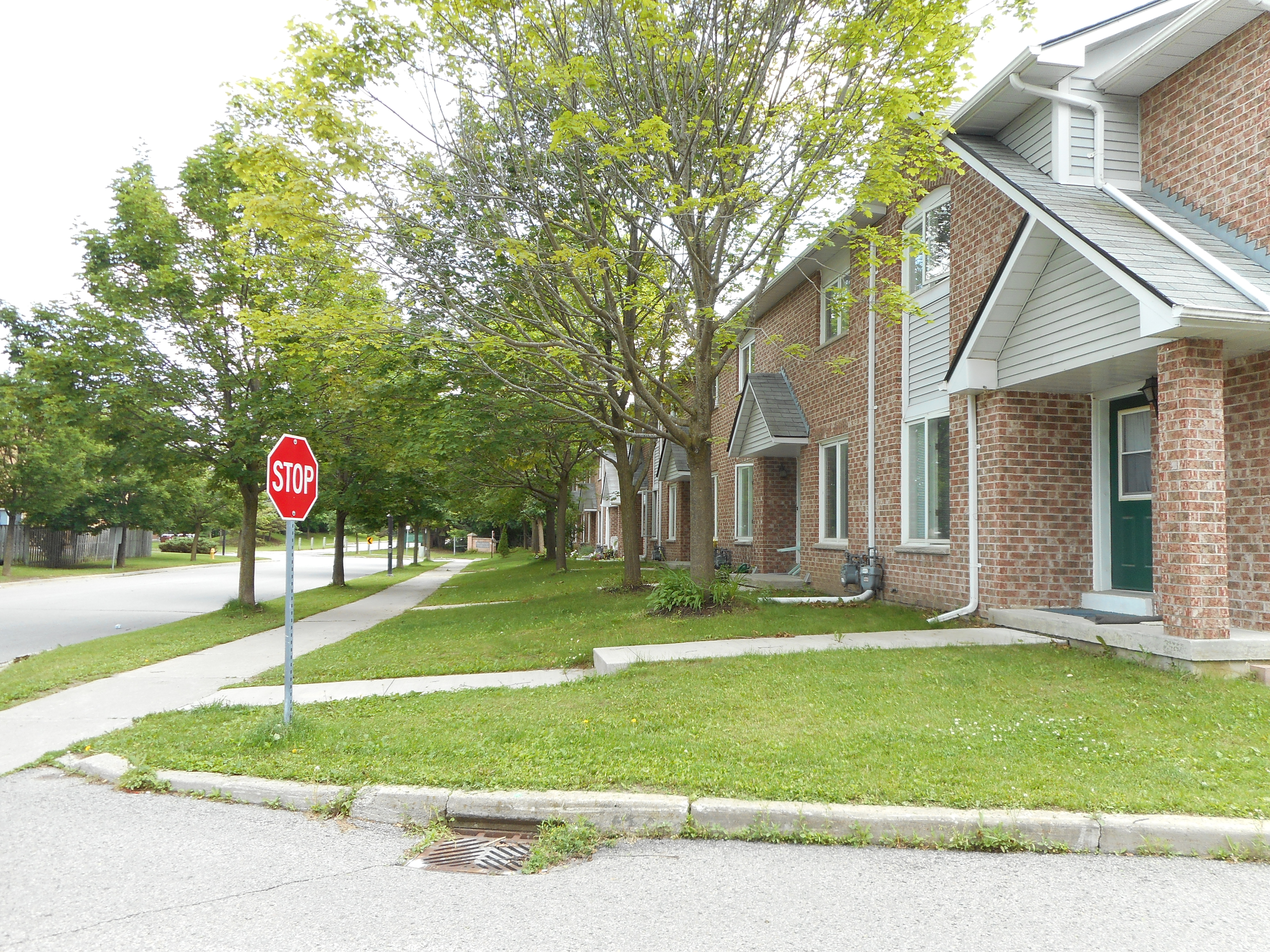 Rachel Crescent and Bates Way, Markham.